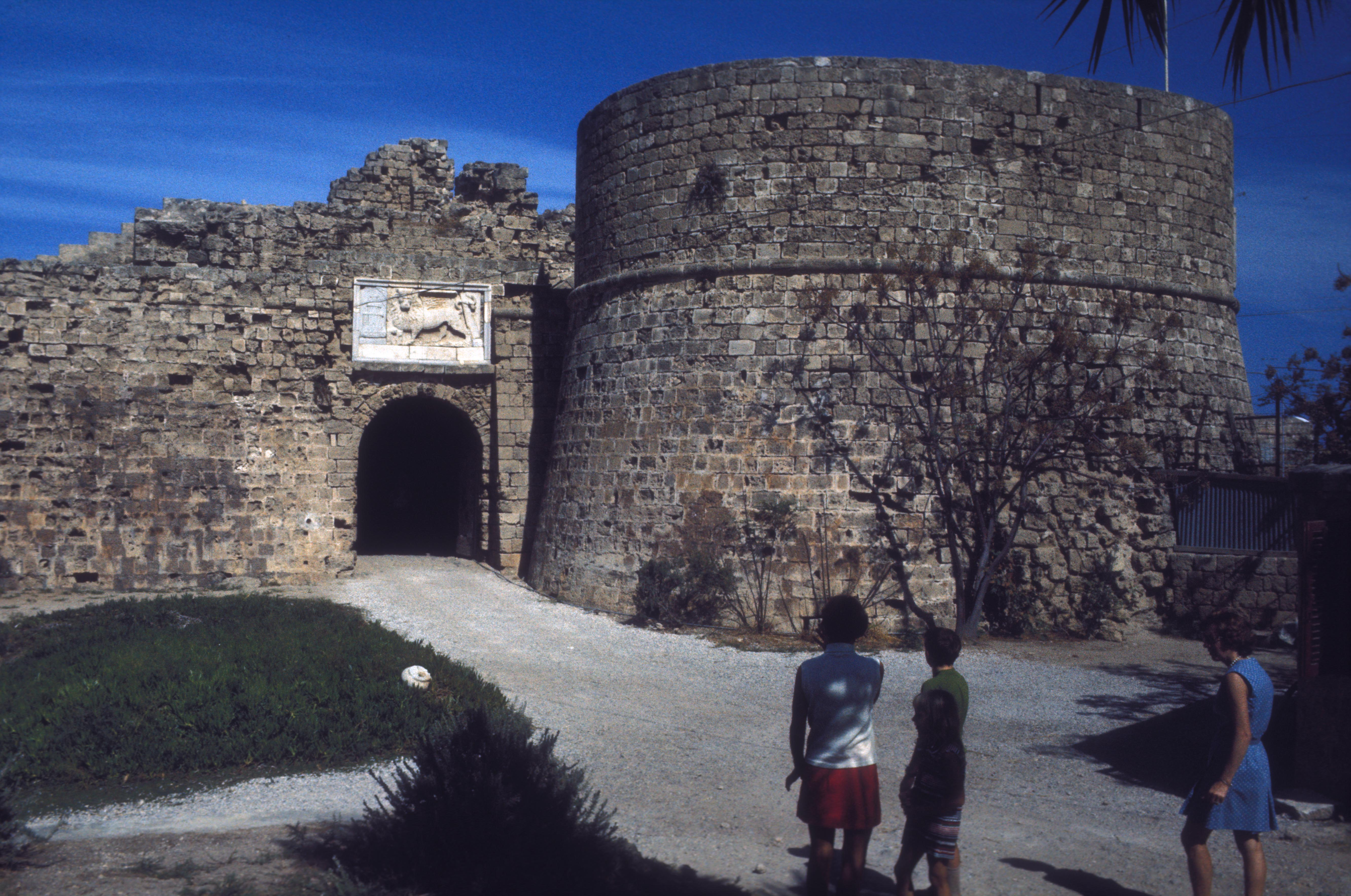 OTHELLO'S TOWER - A NAME DERIVED FROM THE VENETIAN GOVERNOR CHRISTOFORO MORO - WAS USED BY SHAKESPEARE. OTHELLO'S TOWER WAS ORIGINALLY BUILT AS A MOATED CITADEL IN ORDER TO PROTECT FAMAGUSTA'S HARBOUR, AND WAS ORIGINALLY THE MAIN ENTRANCE TO THE TOWN.